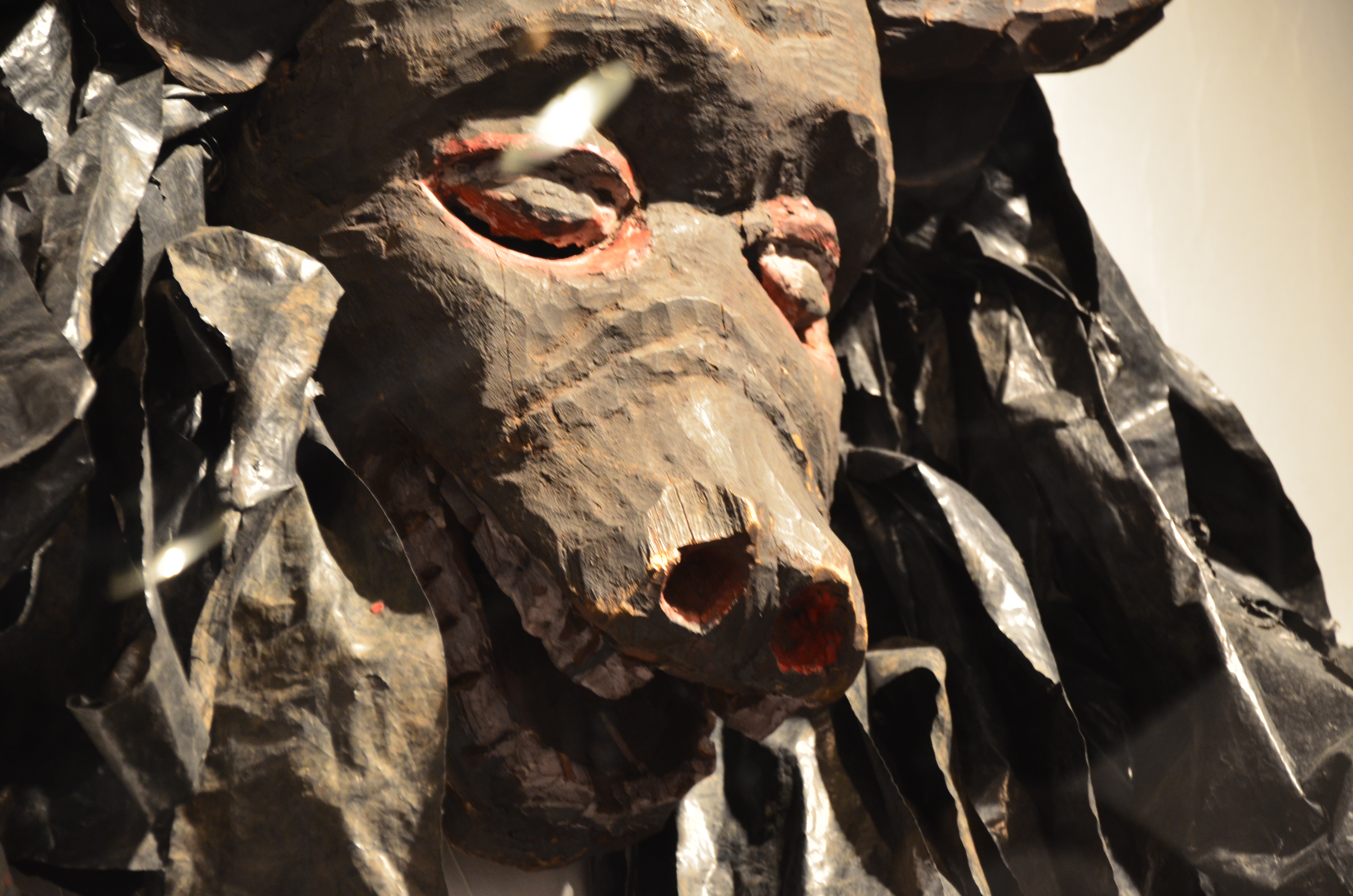 Gule Wamkulu mask; Chewa people; Malawi. Exhibition MASK: Secrets and Revelations, Michigan State University Museum, East Lansing.